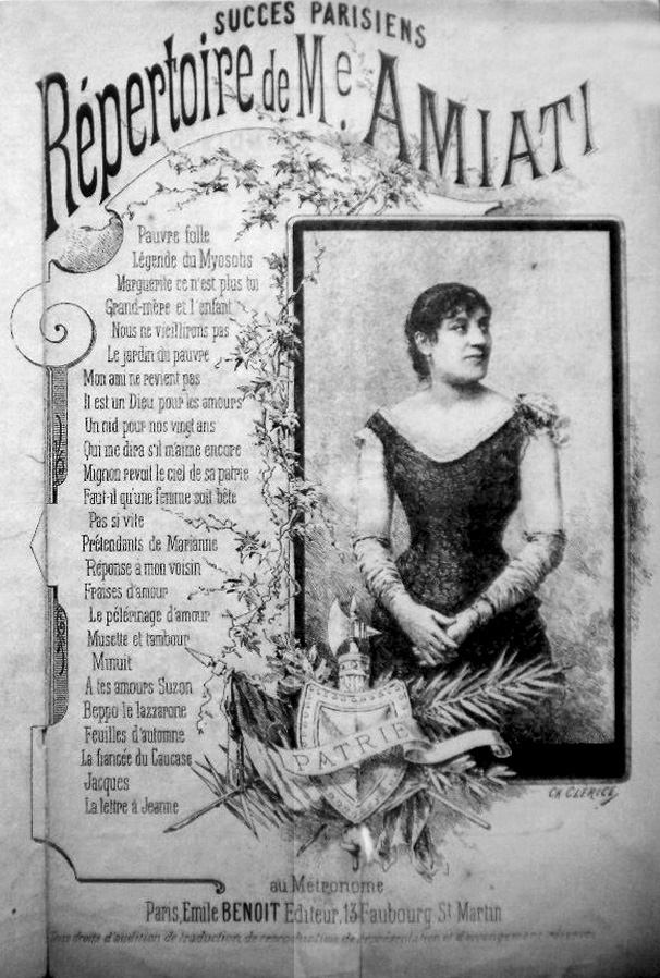 Cover of a sheet music from Emile Benoit, Amiati, a French chauvinistic singer